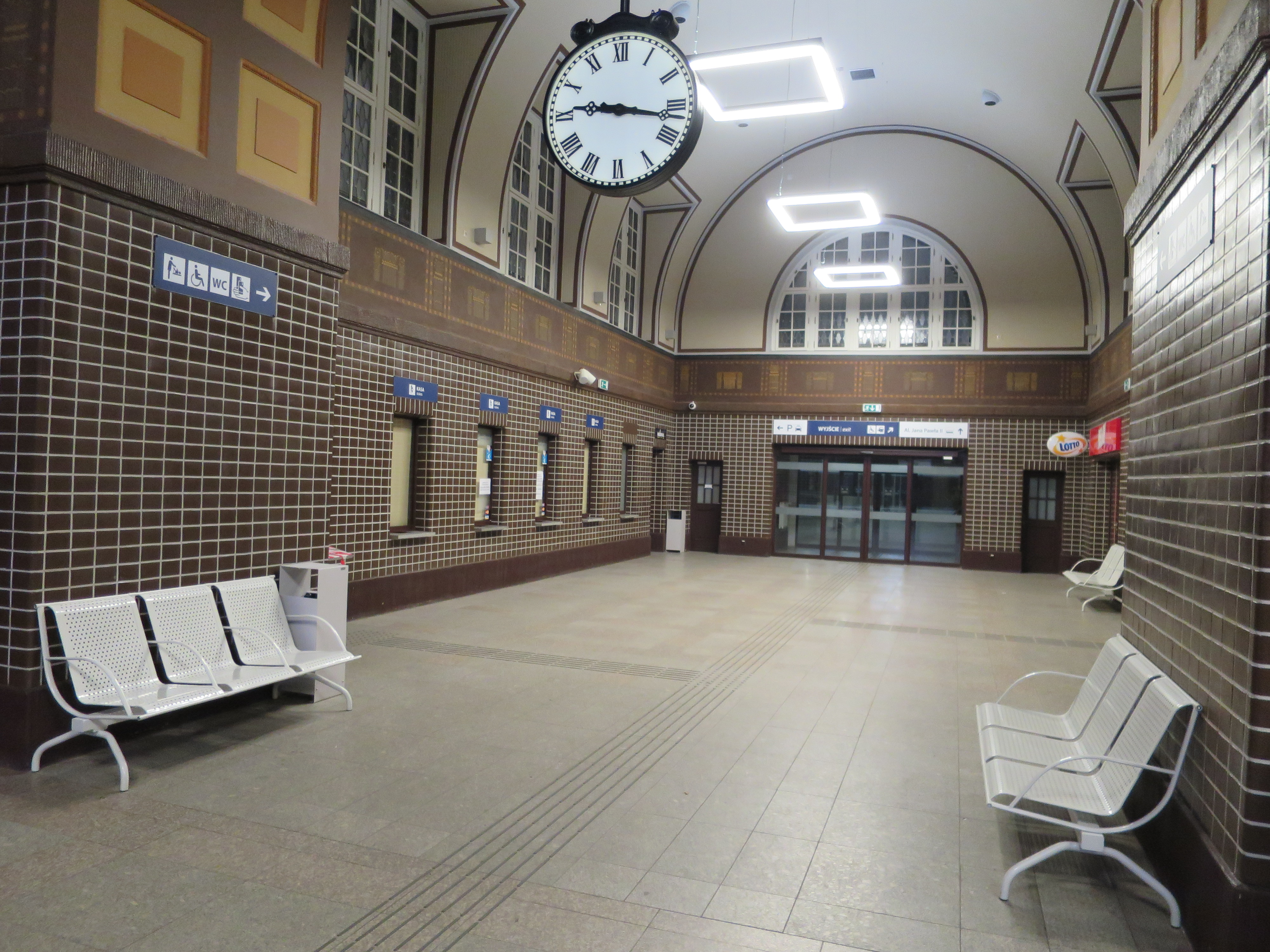 This photo was taken during Wikiexpedition 2016 set up by Wikimedia Polska Association. You can see all photographs in categories Wikiekspedycja Opolska 2016 (Polish part) and Mediagrant III:Wikiexpedice Slezsko (Czech part).